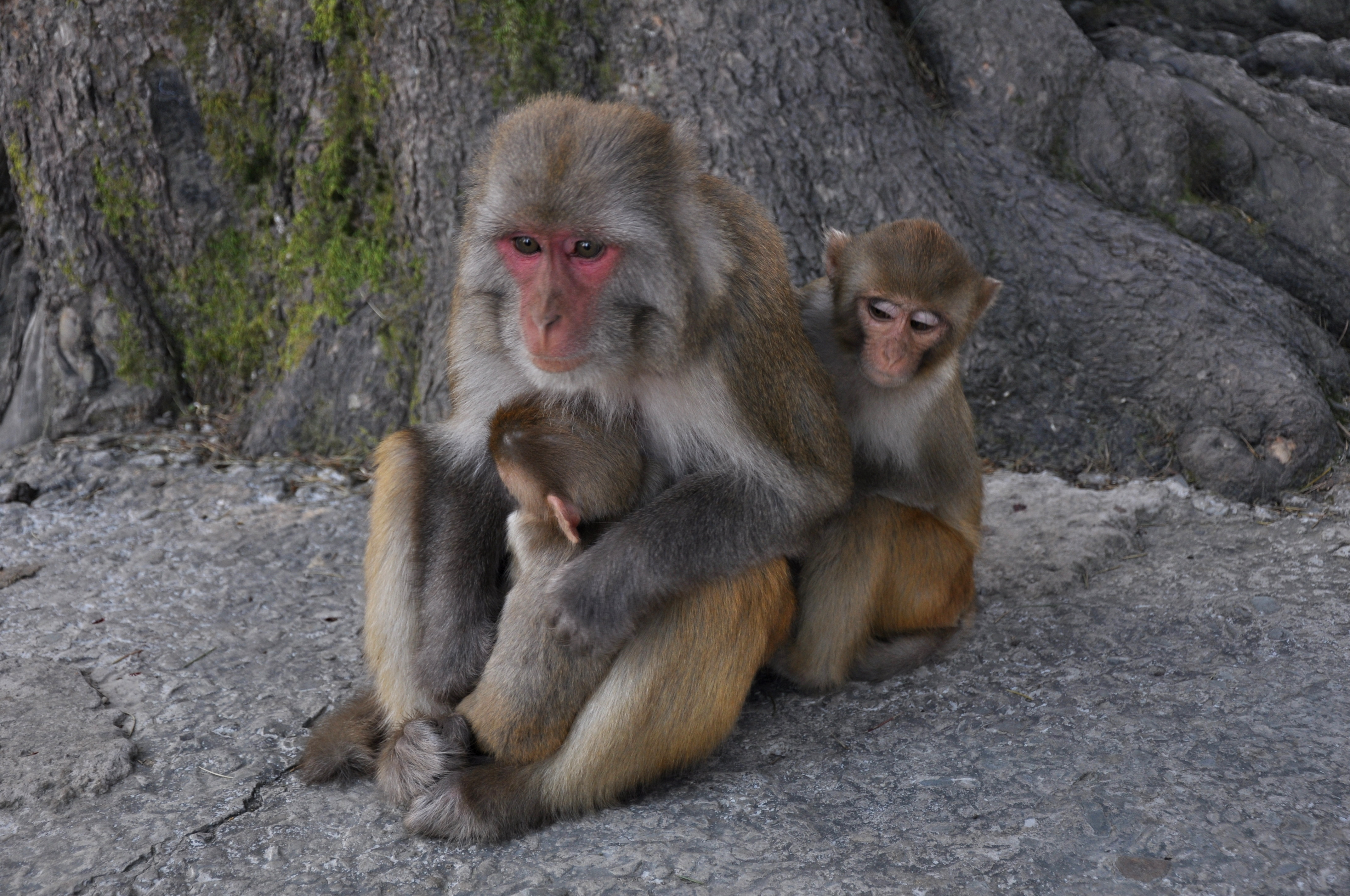 Rhesus Macaque with two babies in Shimla Himachal Pradesh near the Jakhu temple.